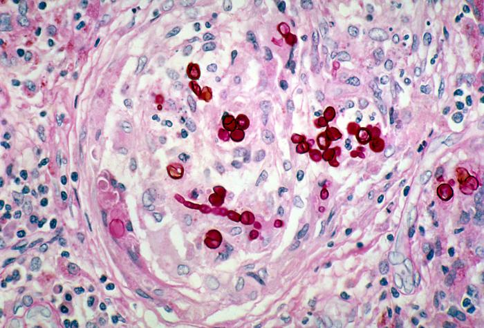 ID#: 3781 Description: This micrograph reveals the histopathologic changes in phaeohyphomycosis due to Wangiella dermatitidis using PAS stain. Phaeohyphomycosis is of a group of fungal infections characterized by superficial and deep tissue involvement caused by dematiaceous, dark-walled fungi that form pigmented hyphae, or fine branching tubes, and yeastlike cells in the infected tissues. Content Providers(s): CDC/Dr. Libero Ajello Creation Date: 1978 Copyright Restrictions: None - This image is in the public domain and thus free of any copyright restrictions. As a matter of courtesy we request that the content provider be credited and notified in any public or private usage of this image.